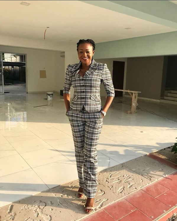 Nuong Faalong